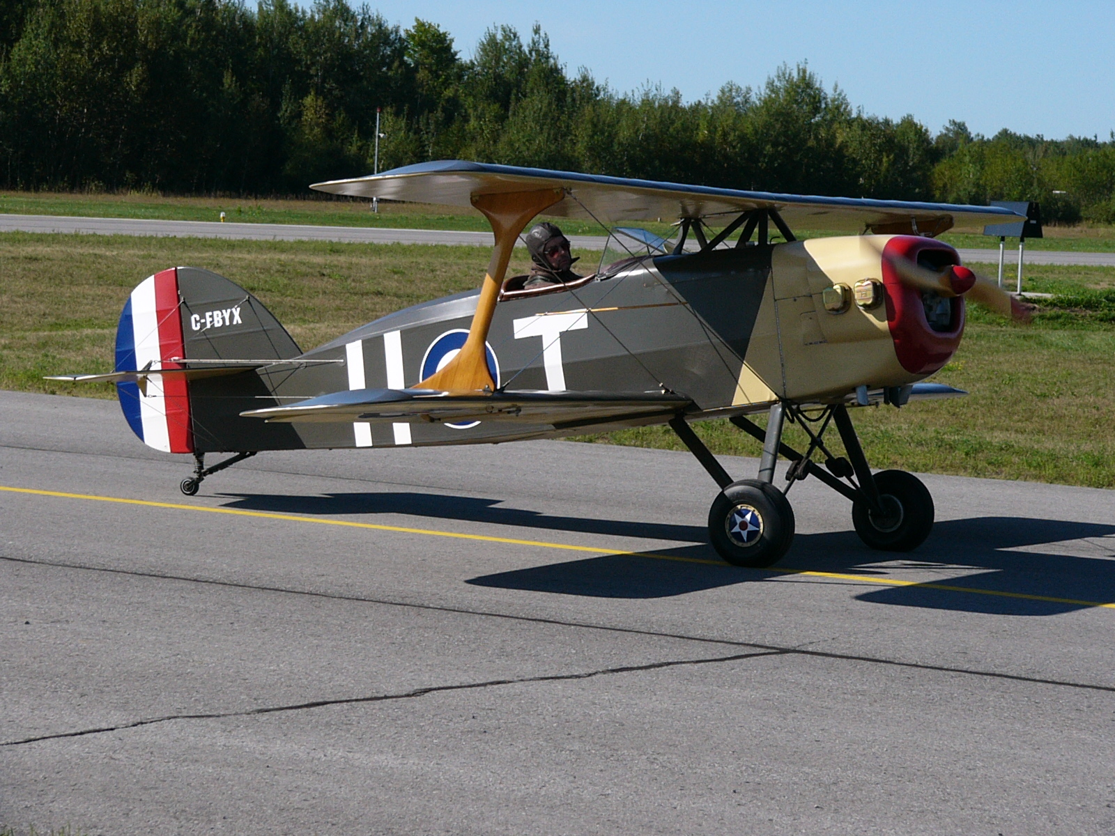 A Wolf W-11 Boredom Fighter at Carp Airport, Ontario, Canada